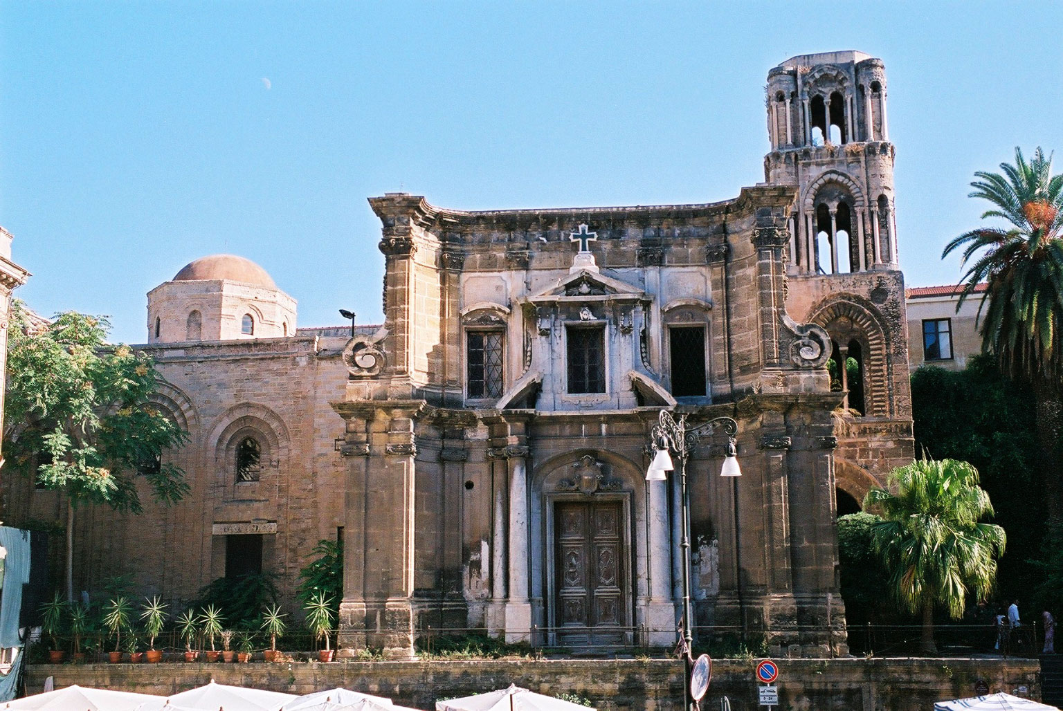 Chiesa Santa Maria dell'Ammiraglio also Parrocchia di San Nicolò dei Greci, calledMartorana, in Palermo, is a Co-cathedral of the Eparchy of Piana degli Albanesi of the Italo-Albanian Catholic Church, a diocese which includes the Albanian communities in Sicily. Exterior view showing the Norman architecture, the gothic tower and the baroque facade.